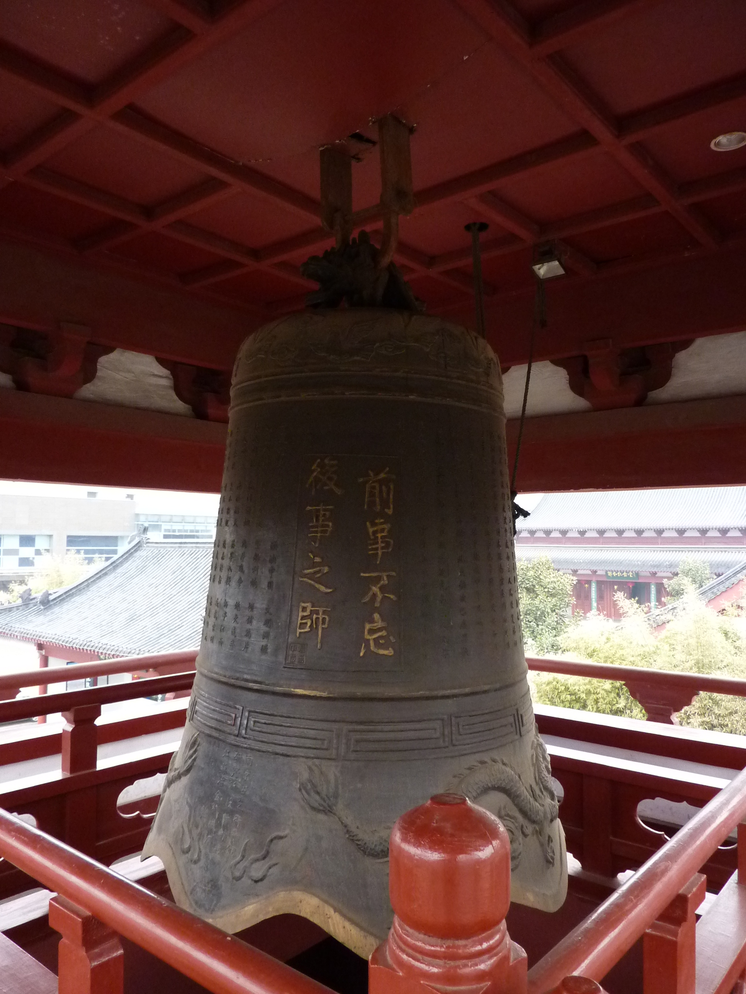 The bell in the bell tower (constructed 2005) outside of the Jinghai Temple, Nanjing